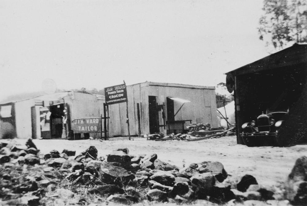 Shop fronts in Cracow, Queensland ca. 1930. Shop of Jim Ward, the tailor, in Cracow. Note that all the buildings appear to be constructed from corrugated iron. Cracow was a gold mining town with commercial operations starting around 1932. These continued intermittently through to the early 1990s. The town then became almost a ghost town but is presently undergoing another boom with a new gold mine being developed. The tailor has long since disappeared.